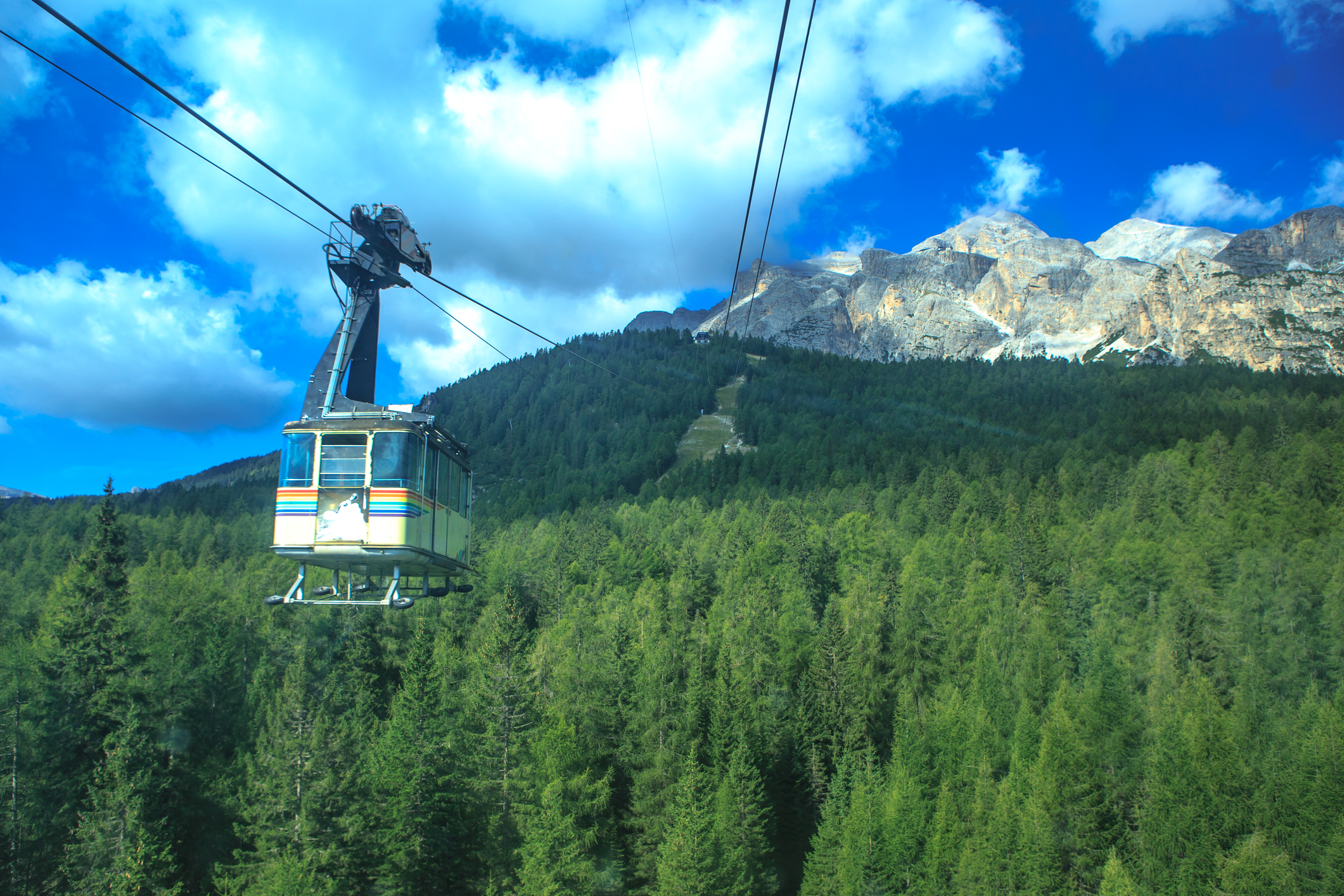 Dolomites...Cortina area...mrning trip up the cables cars to Tofana di Mezzo